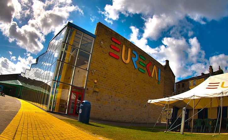 The exterior of Eureka! The National Children's Museum in Halifax, West Yorkshire, United Kingdom